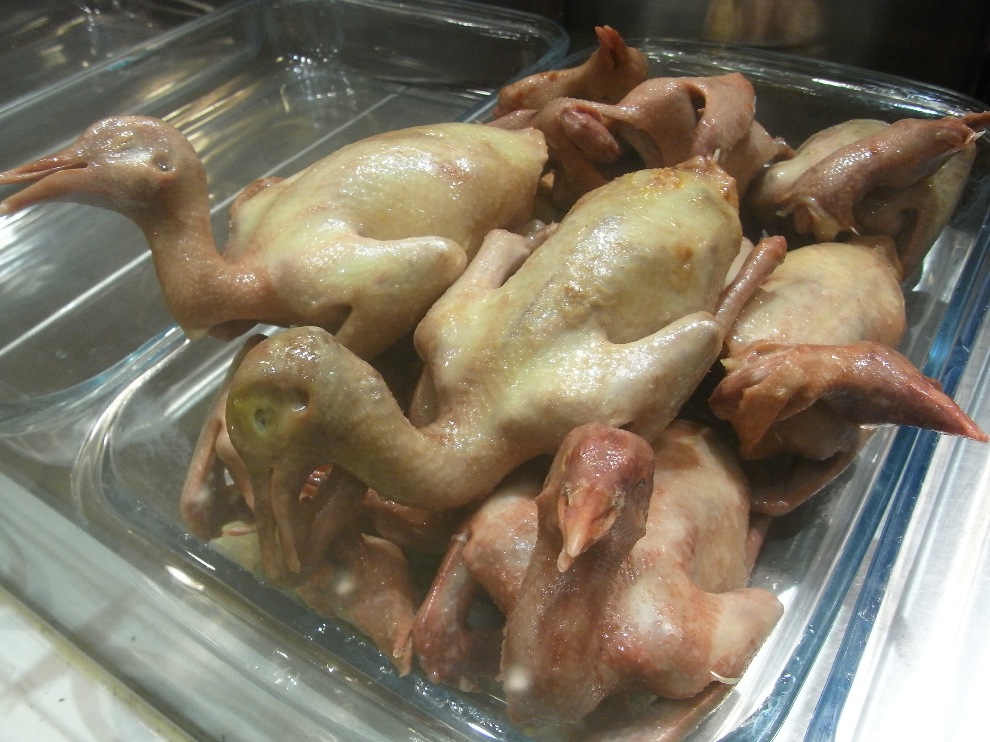 北角 英皇道 健威花園, Healthy Gardens, King's Road, North Point, Hong Kong